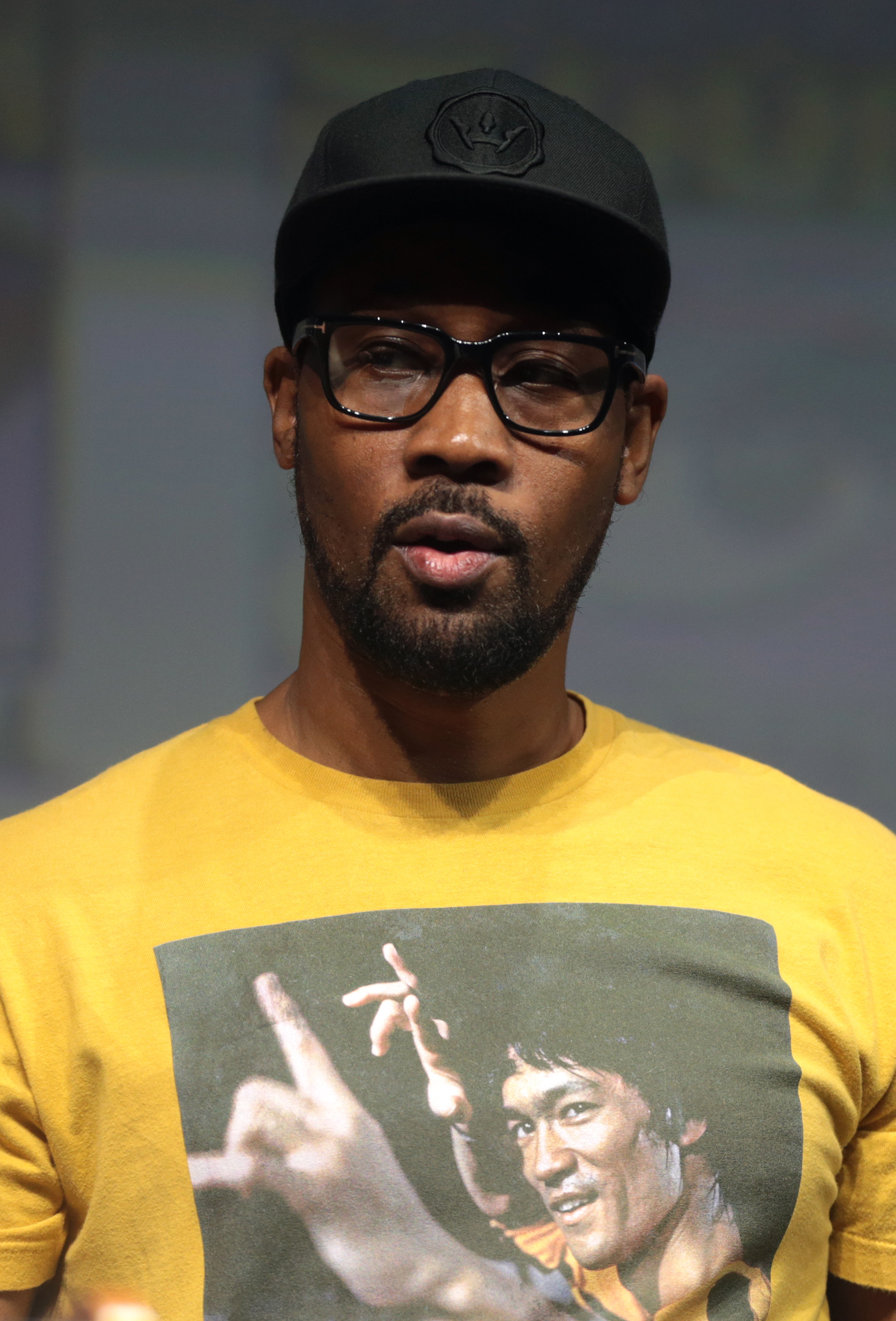 RZA speaking at the 2018 San Diego Comic-Con International in San Diego, California.